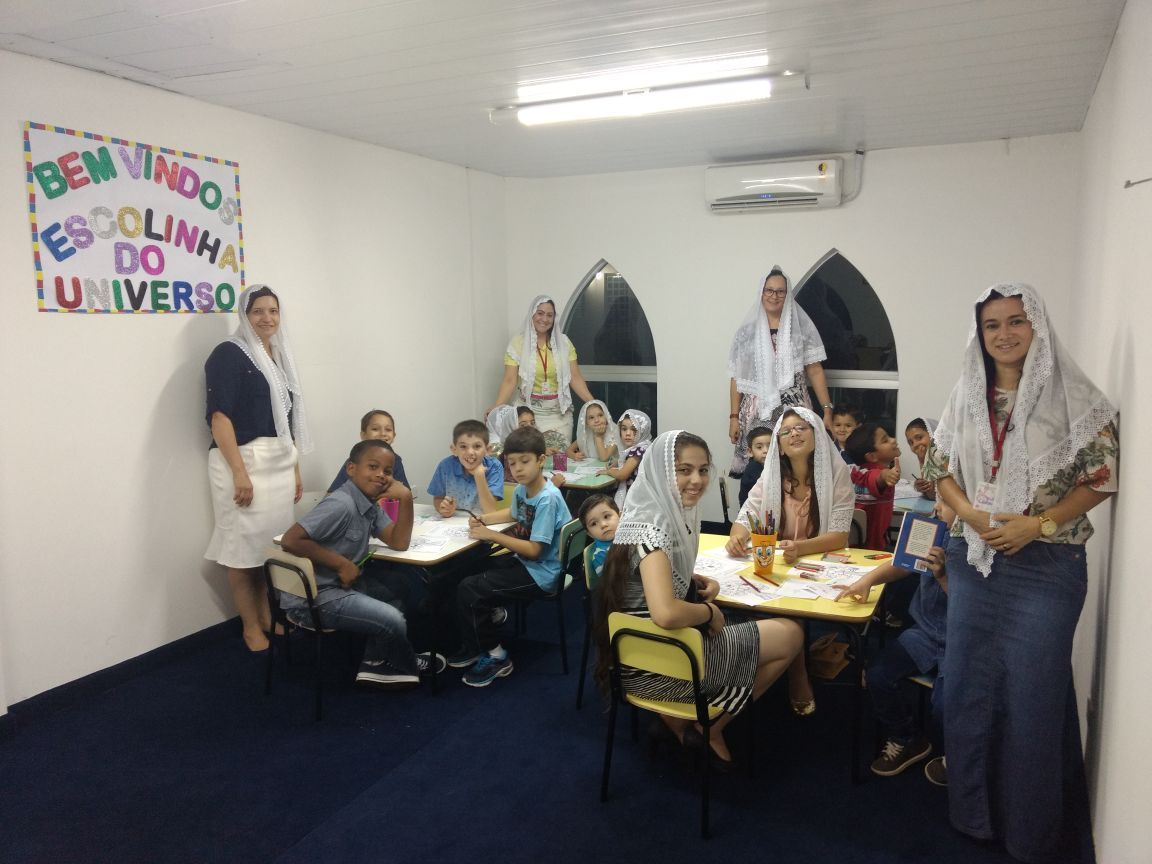 A Sunday School, a Christian educational institution, catering to children and young people in a Pentecostal Church in Brazil.